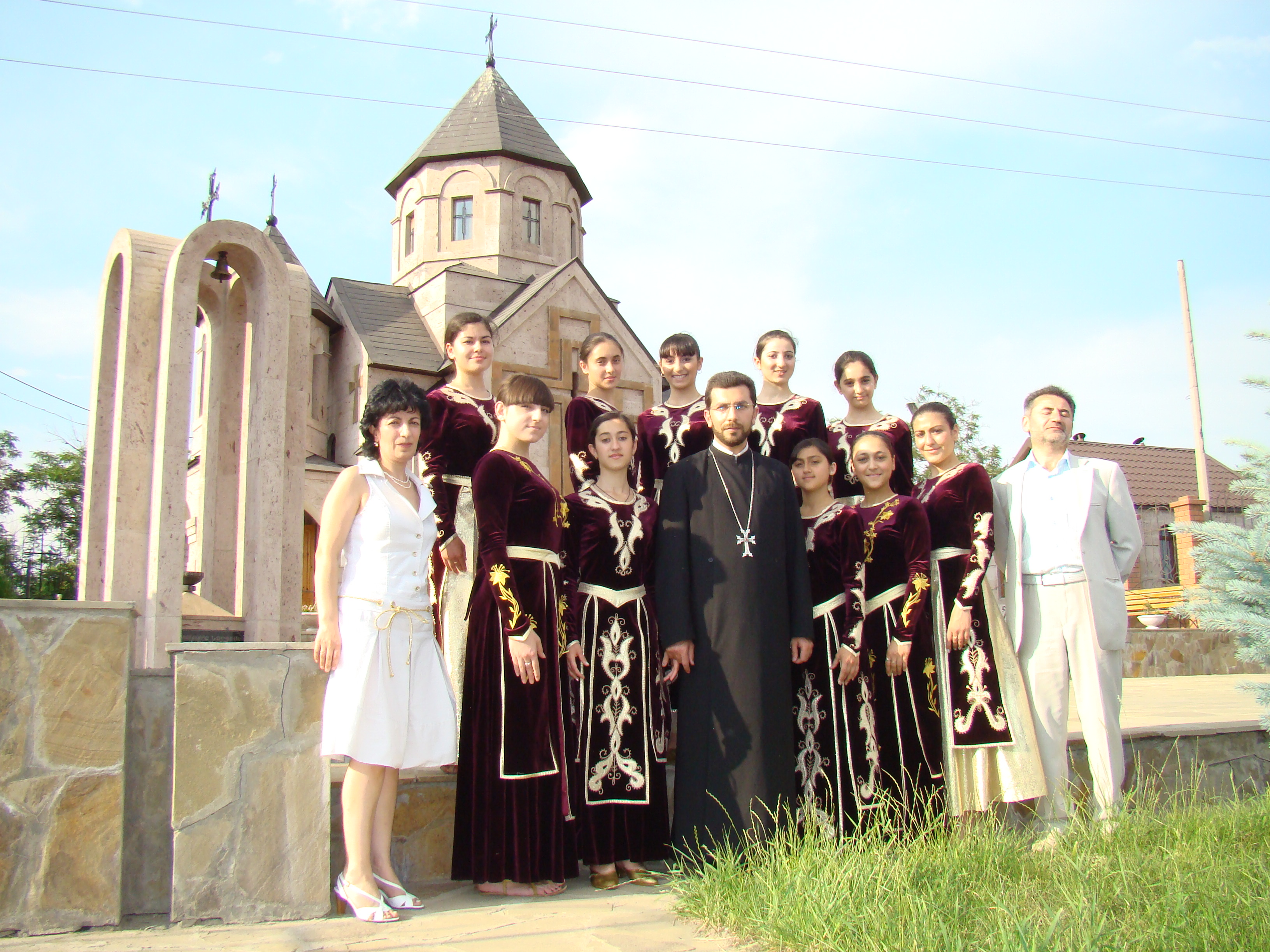 Artrujt in Sourb Gevorg in Volgograd